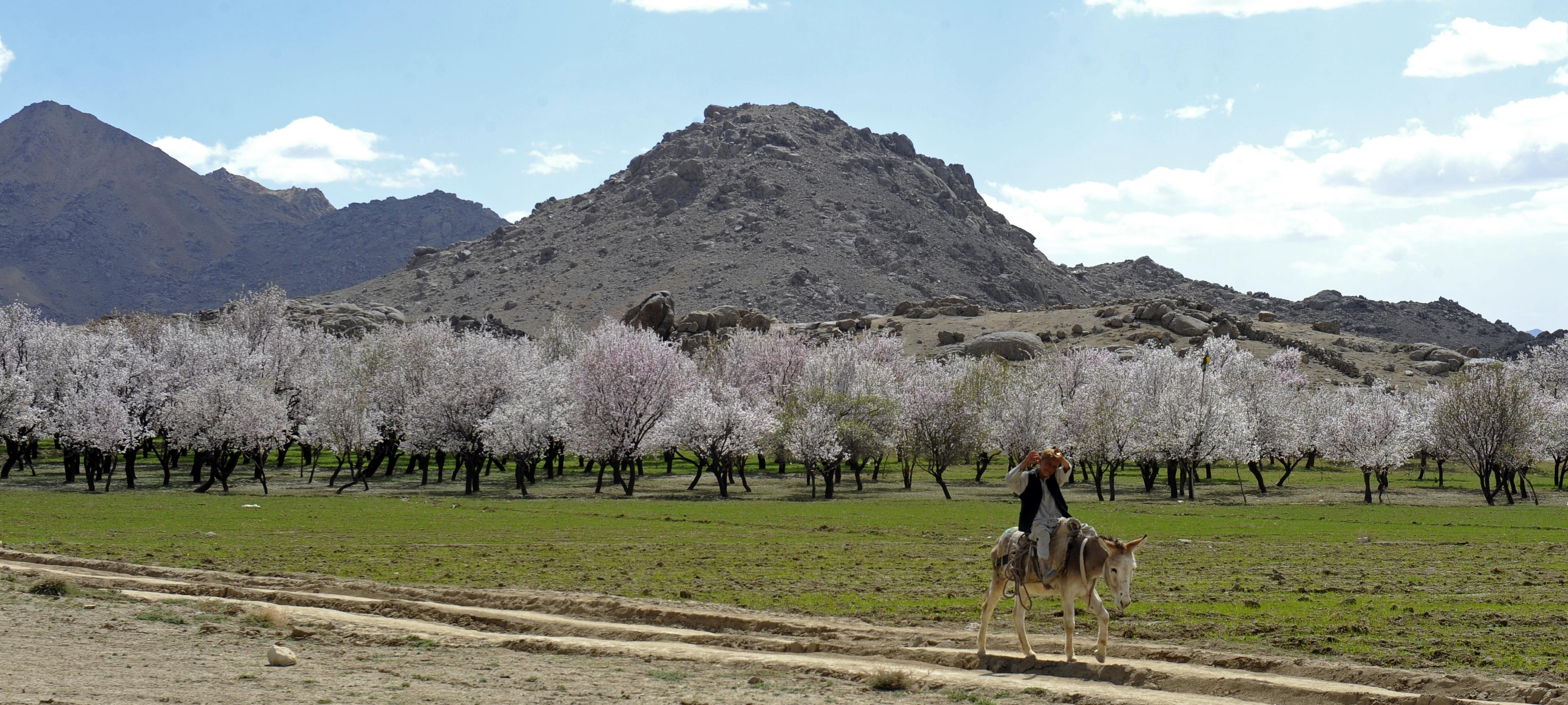 Almond trees in bloom line the valley near the Daychopan District Center, March 29, 2011. U.S. Air Force photo by Staff Sgt. Brian Ferguson [1]